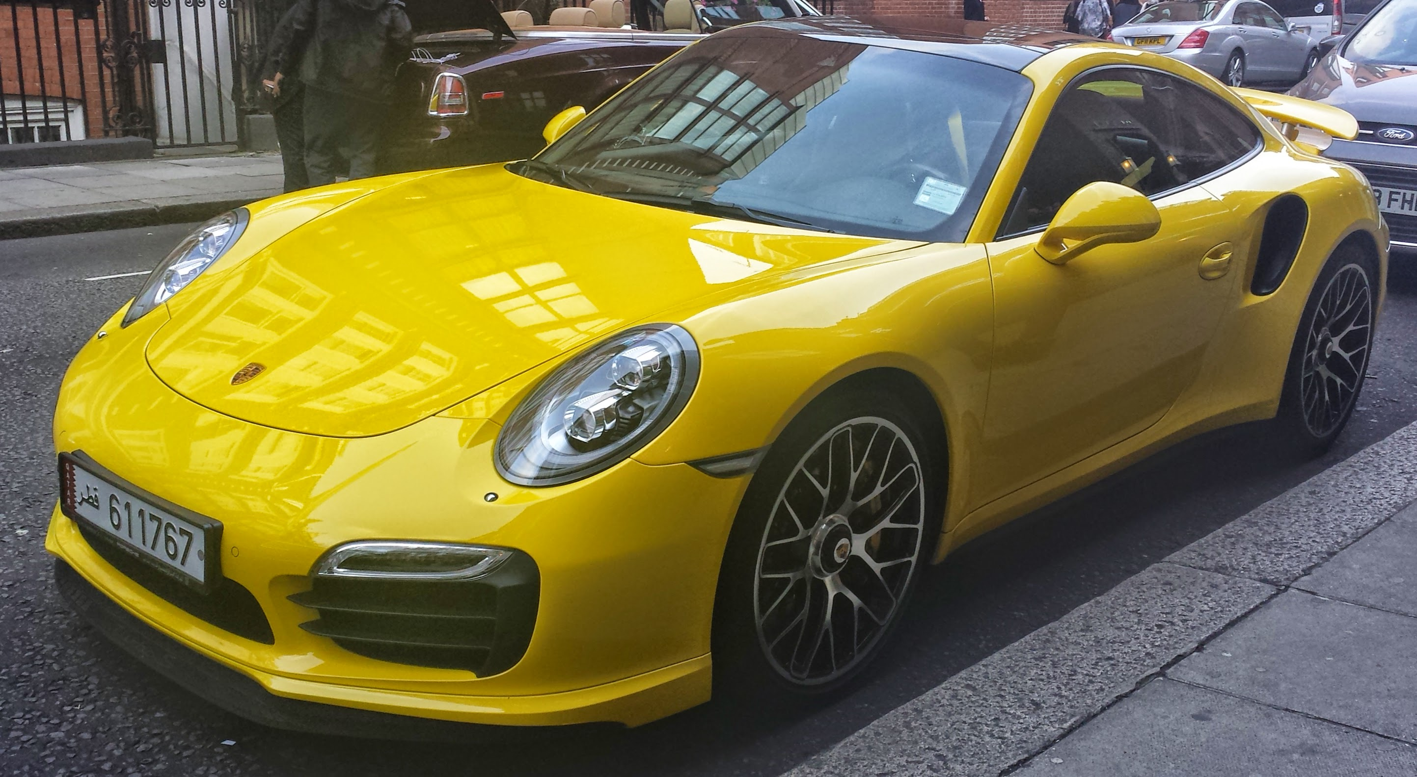 Porsche 911 Turbo S